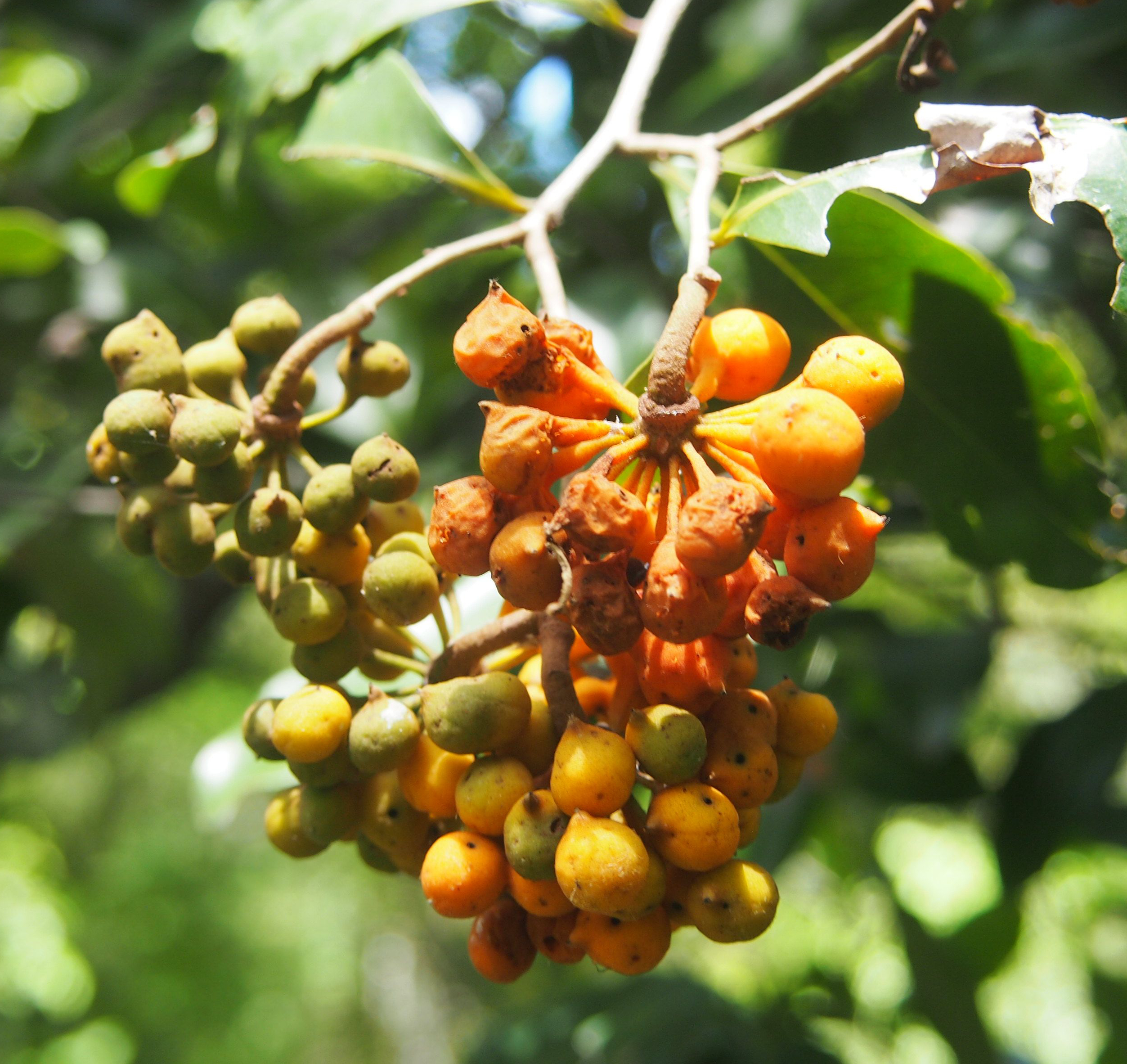 Melodorum leichhardtii fruit